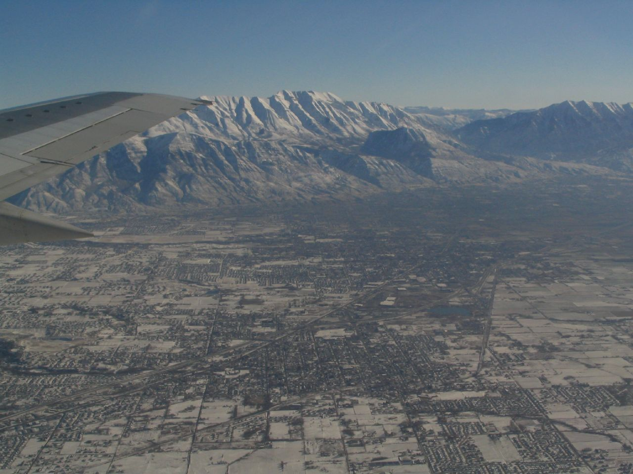 Utah Valley (aka "Happy Valley") is a valley in North Central Utah located in Utah County, and is considered part of the Wasatch Front. It contains the cities of Provo, Orem, and their suburbs, including Alpine, American Fork, Cedar Hills, Elk Ridge, Genola, Goshen, Highland, Lehi, Lindon, Mapleton, Payson, Pleasant Grove, Salem, Santaquin, Saratoga Springs, Spanish Fork, Springville, and Woodland Hills. Utah Lake is a natural shallow fresh water lake in its center. All rivers in the valley flow into Utah Lake, which itself empties into the Jordan River to the north. That river flows into the Salt Lake Valley through the Jordan Narrows, a gap in the Traverse Mountains. Novell and WordPerfect were instrumental in making the Utah Valley a focus for software development. Today this area has many small companies whose employees have previously worked at Novell. Also located there are Utah Valley University and Brigham Young University. Most inhabitants of Utah Valley are members of The Church of Jesus Christ of Latter-day Saints, which operates temples in Provo and American Fork, with temples under construction in Payson and Provo (downtown).